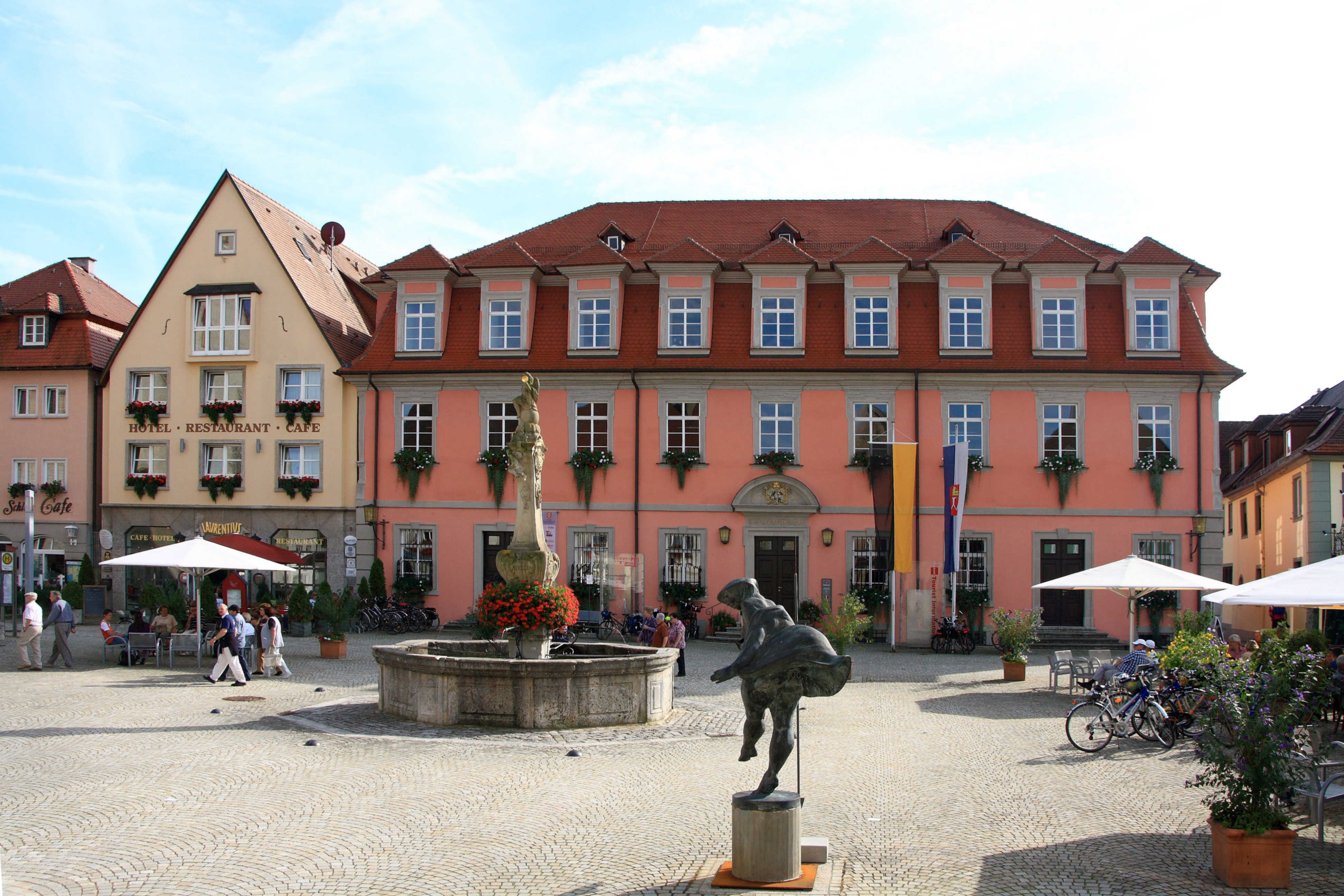 Town hall and market place of Weikersheim.